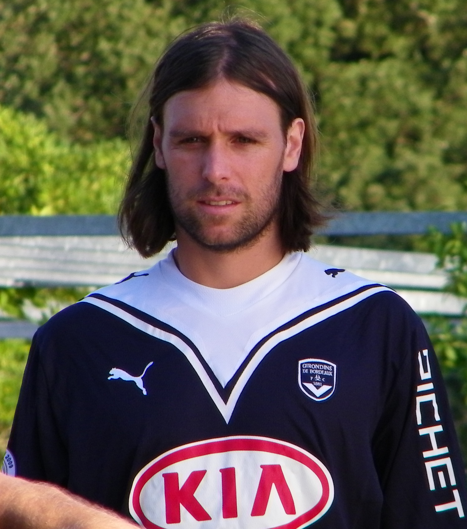 Fernando Ezequiel Cavenaghi, while playing for FC Girondins Bordeaux.